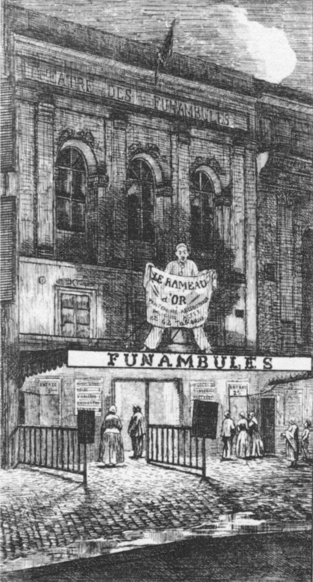 Facade of the Théâtre des Funambules on the boulevard du Temple in Paris, about 1823